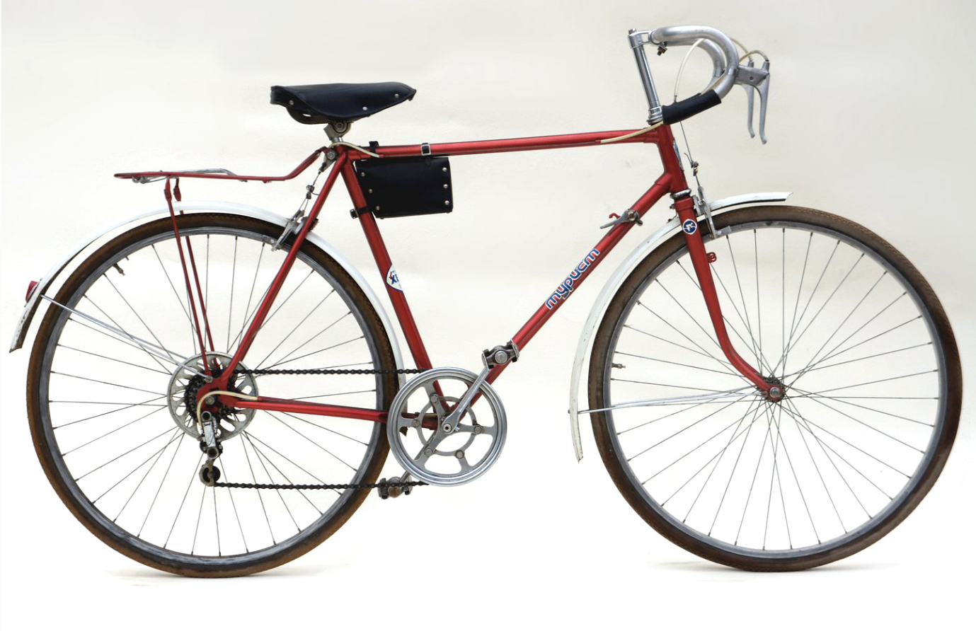 USSR bicycle Turist typ 153-421 (Kharkiv bicycle factory) 1985